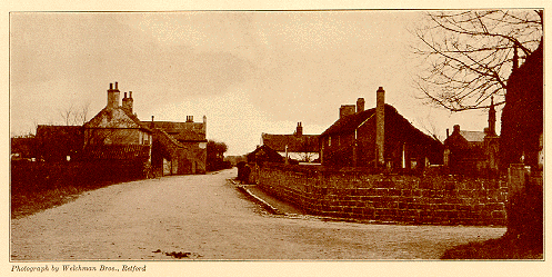 Photograph of Scrooby Village, England, from Albert Addison's 1911 text "The Romantic Story of the Mayflower Pilgrims". Caption reads: "Photograph by Welchman Bros., Bedford SCROOBY VILLAGE"